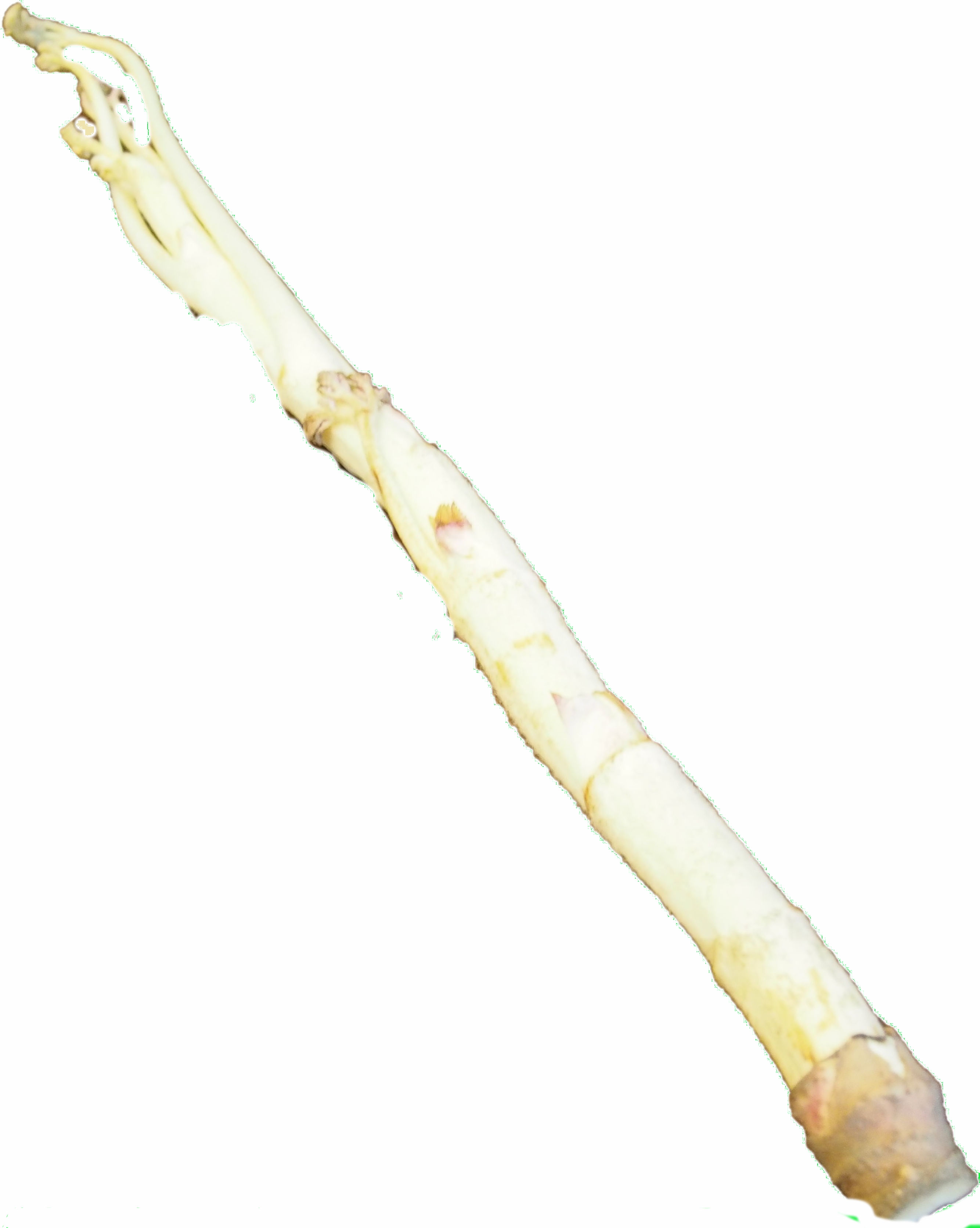 A photo of "Tokyo Udo"(Aralia cordata,a kind of Japanese vegetable)